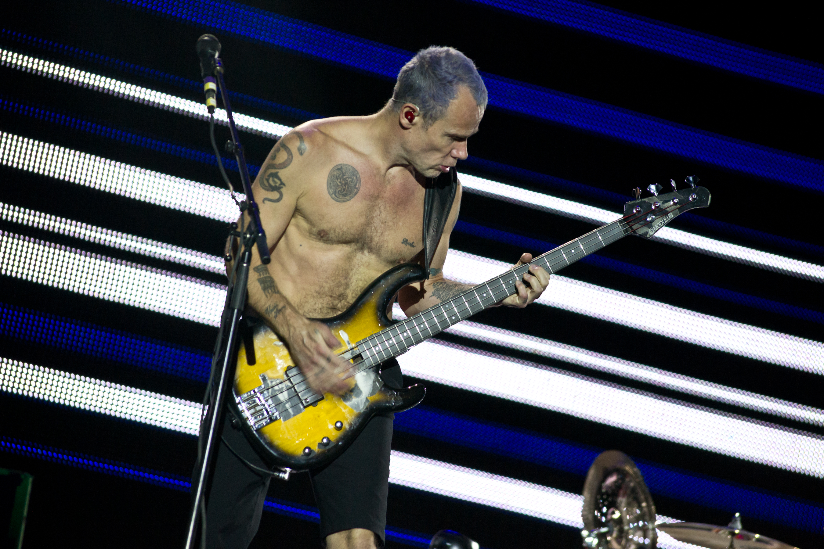 Red Hot Chili Peppers in Rock in Rio Madrid 2012. ( fast slap)